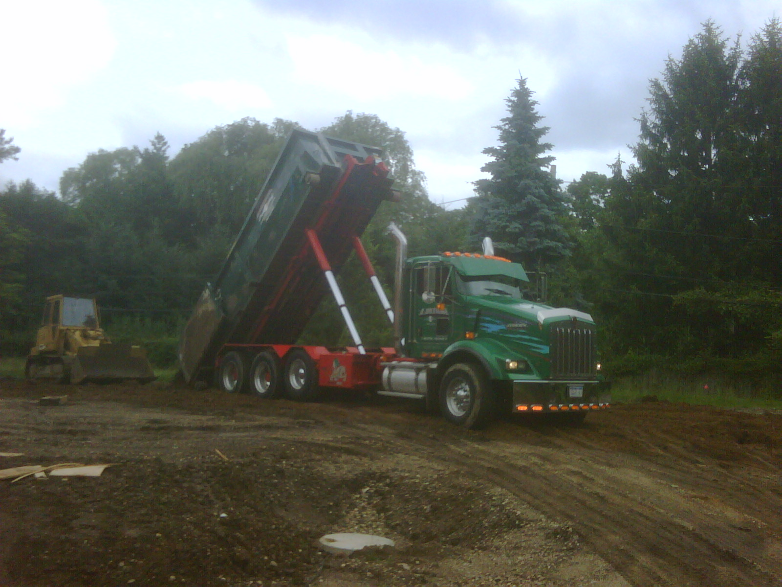 kenworth roll-off dropping off a 20yd container